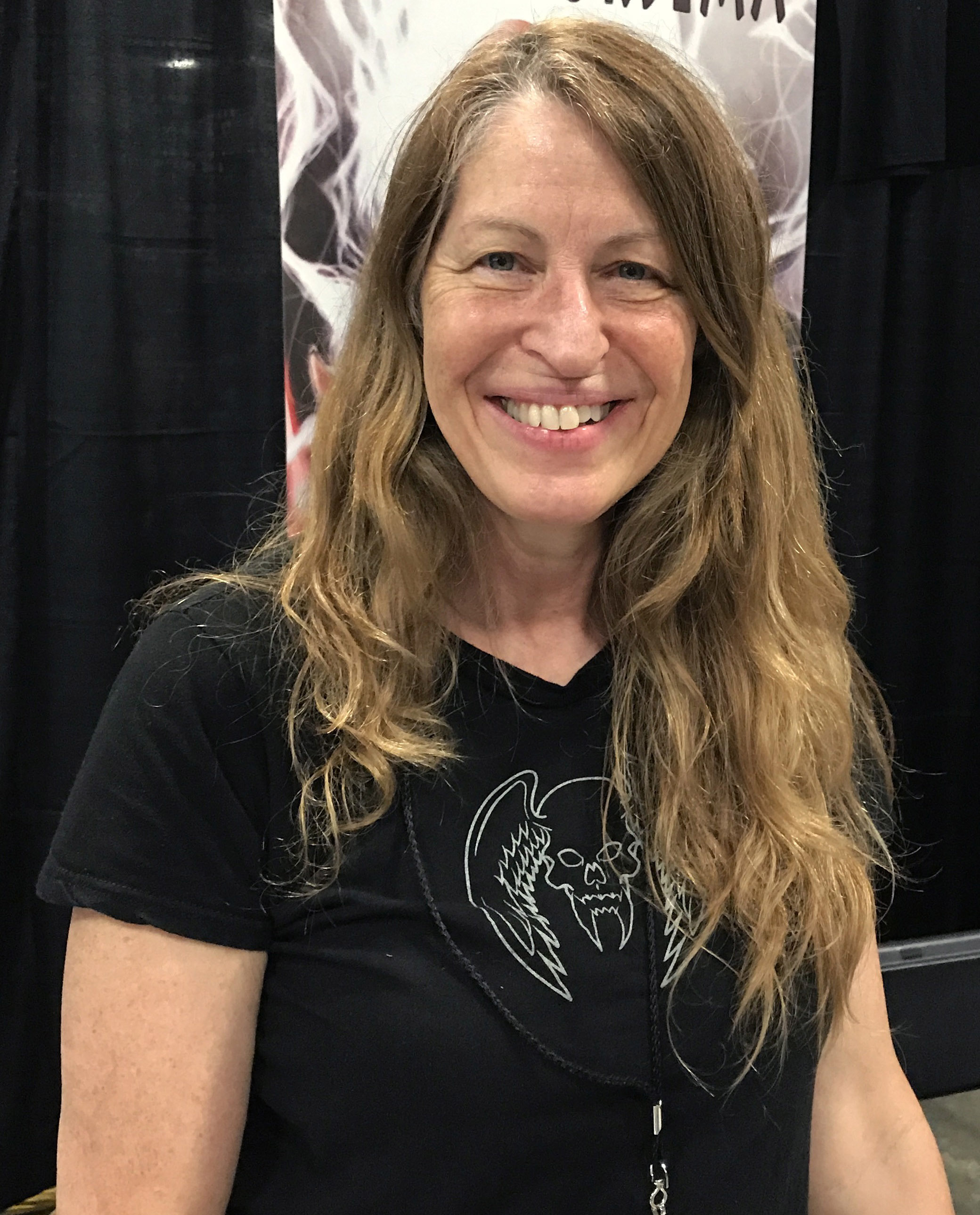 Comic book artist Jan Duursema at the Meadowlands Exposition Center in Secaucus, New Jersey on Saturday, April 29, 2017, Day 1 of the East Coast Comicon. This photo was created by Luigi Novi. It is not in the public domain, and use of this file outside of the licensing terms is a copyright violation.